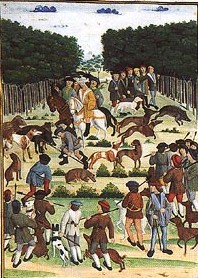 Admiral Malet de Graville